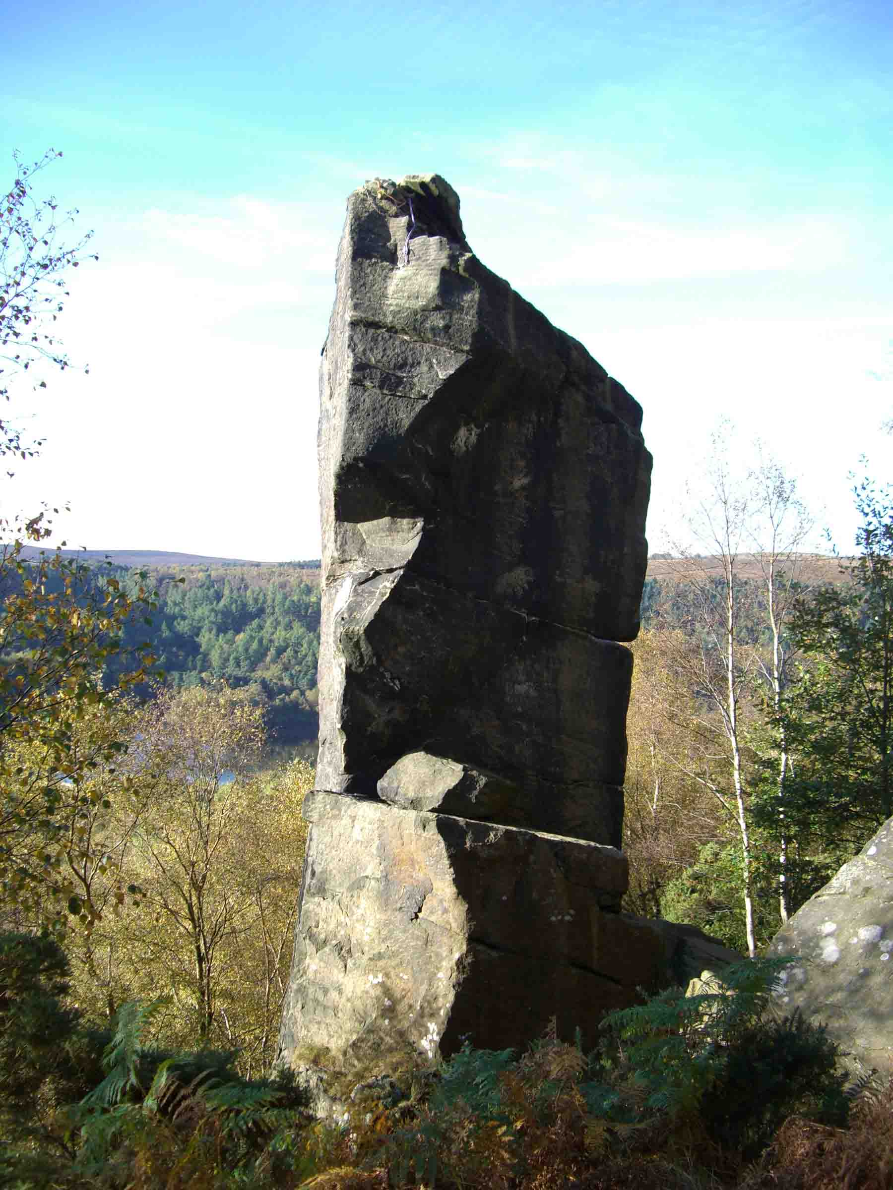 Personal picture taken by Mick Knapton